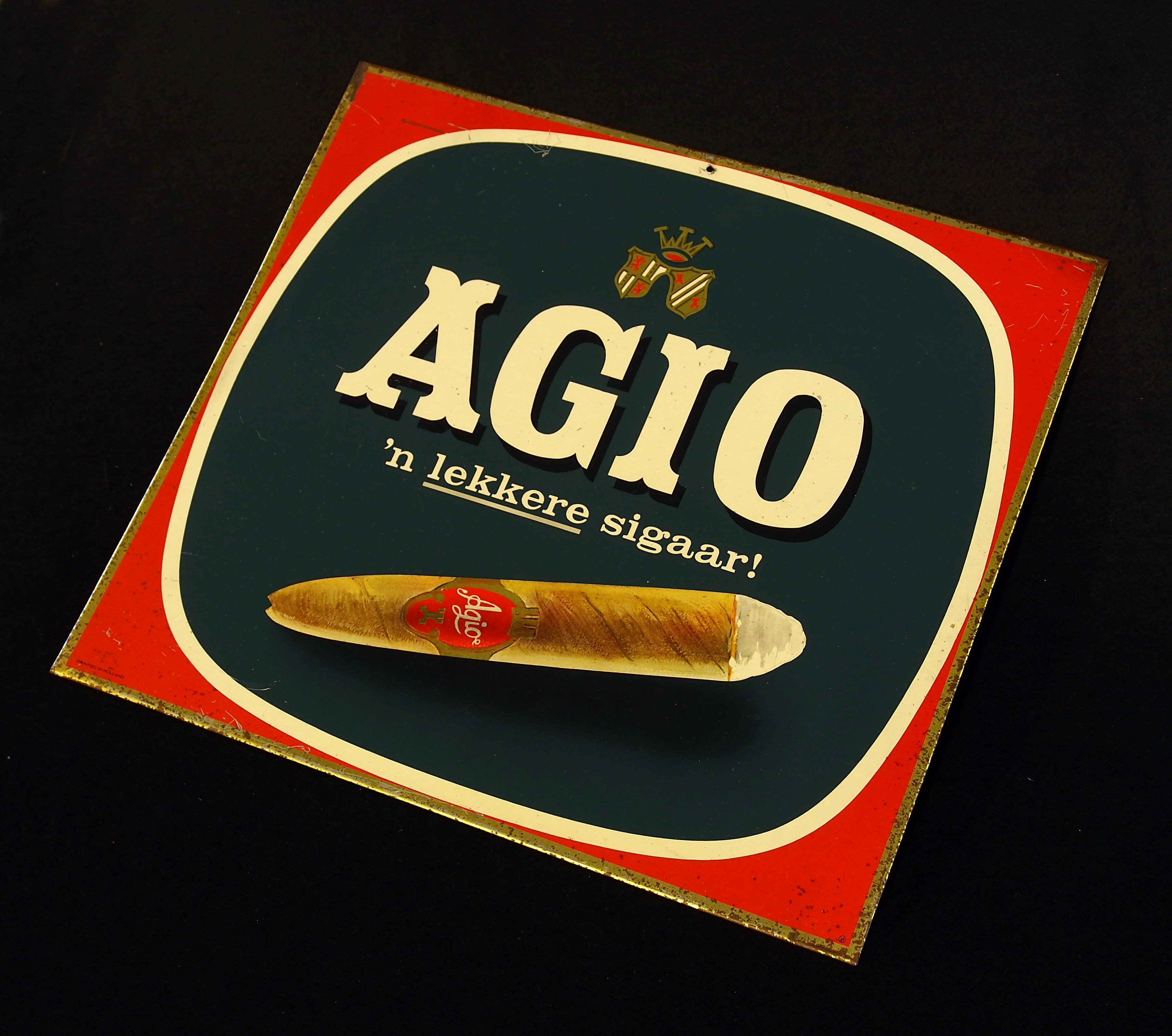 Very old Dutch product that is not produced and/or not sold any more.